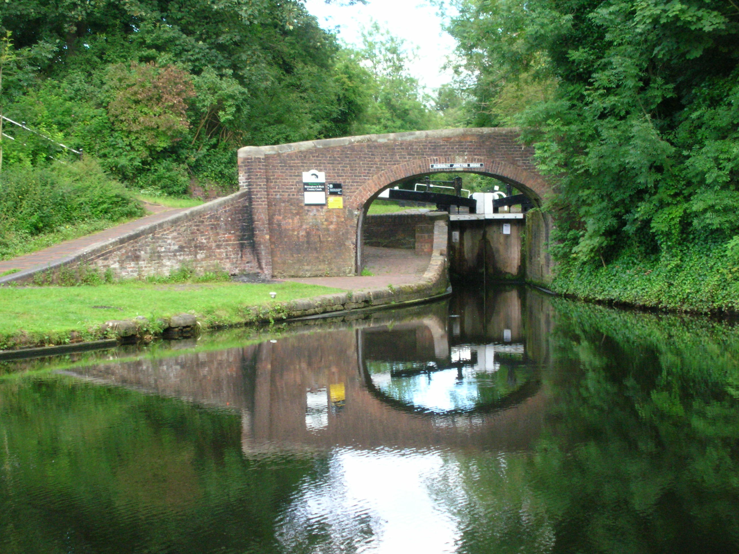 Aldersley Junction on the Staffordshire and Worcestershire Canal near to Oxley, north Wolverhampton, West Midlands, England. This is the Wolverhampton terminus of the BCN Main Line canal of the Birmingham Canal Navigations. The bottom lock of the Wolverhampton flight of the BCN Main Line is visible through the roving bridge. Photographed by me 4 August 2007. Oosoom 15:16, 8 August 2007 (UTC)